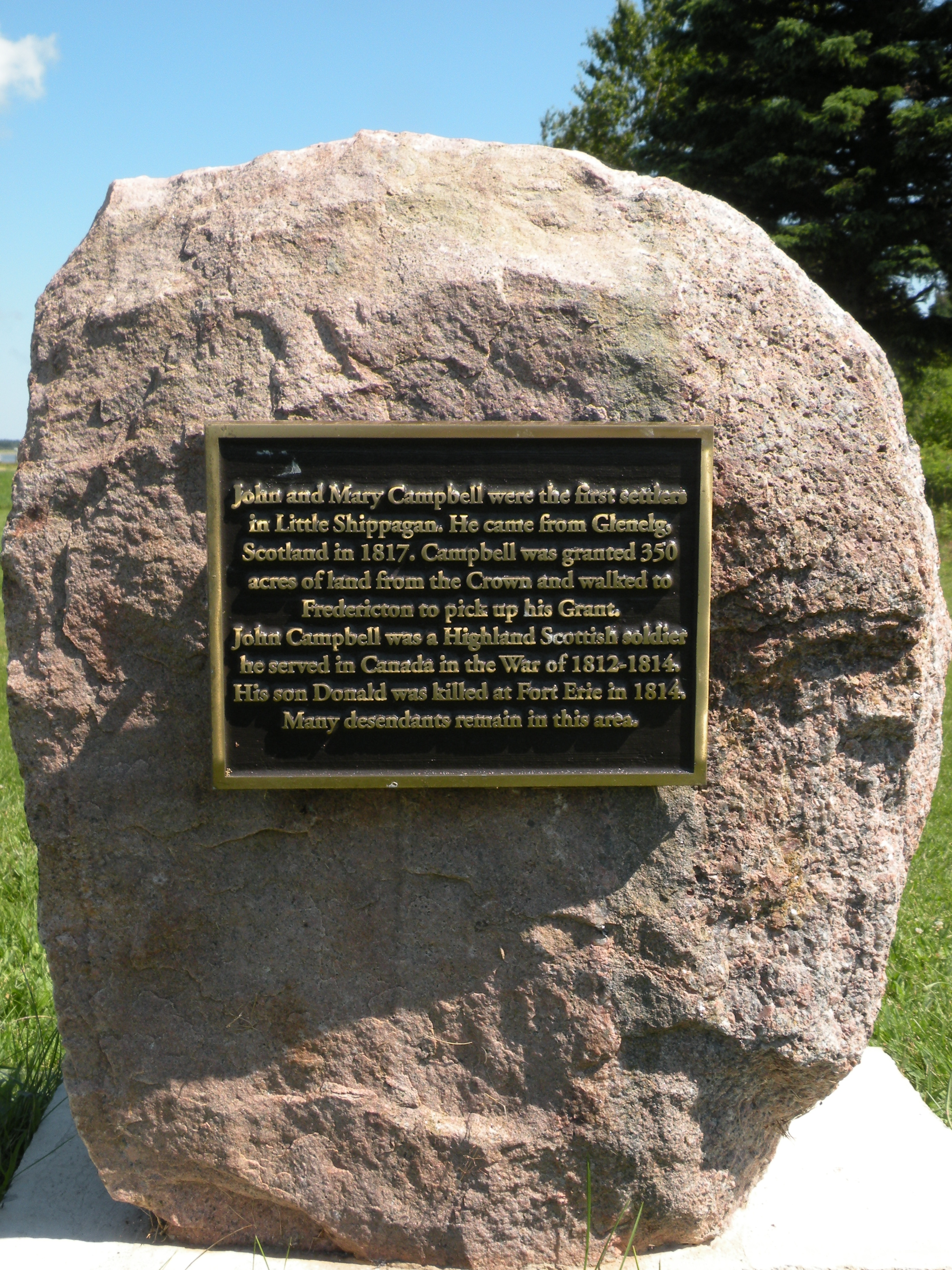 Monument to the memory of John and Mary Campbell in Saint-Cécile, New Brunswick, Canada. The monument is place at the Fort and habitation of Denys National Historic Site of Canada.